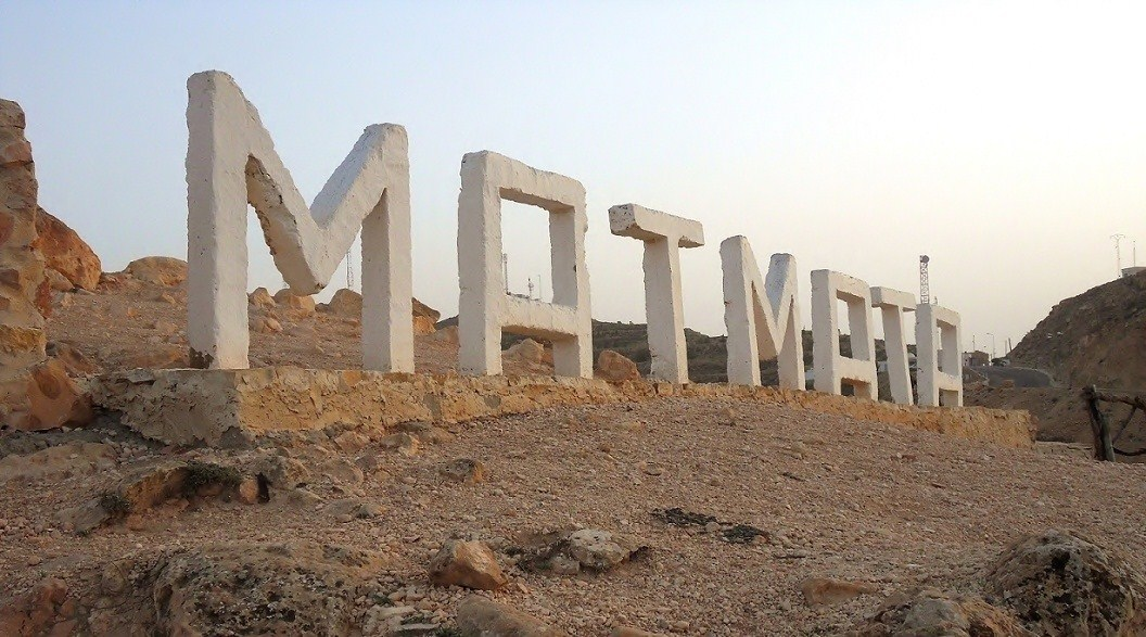 An image on a mountaintop that greets all visitors as they enter the Tunisian town of Matmata.